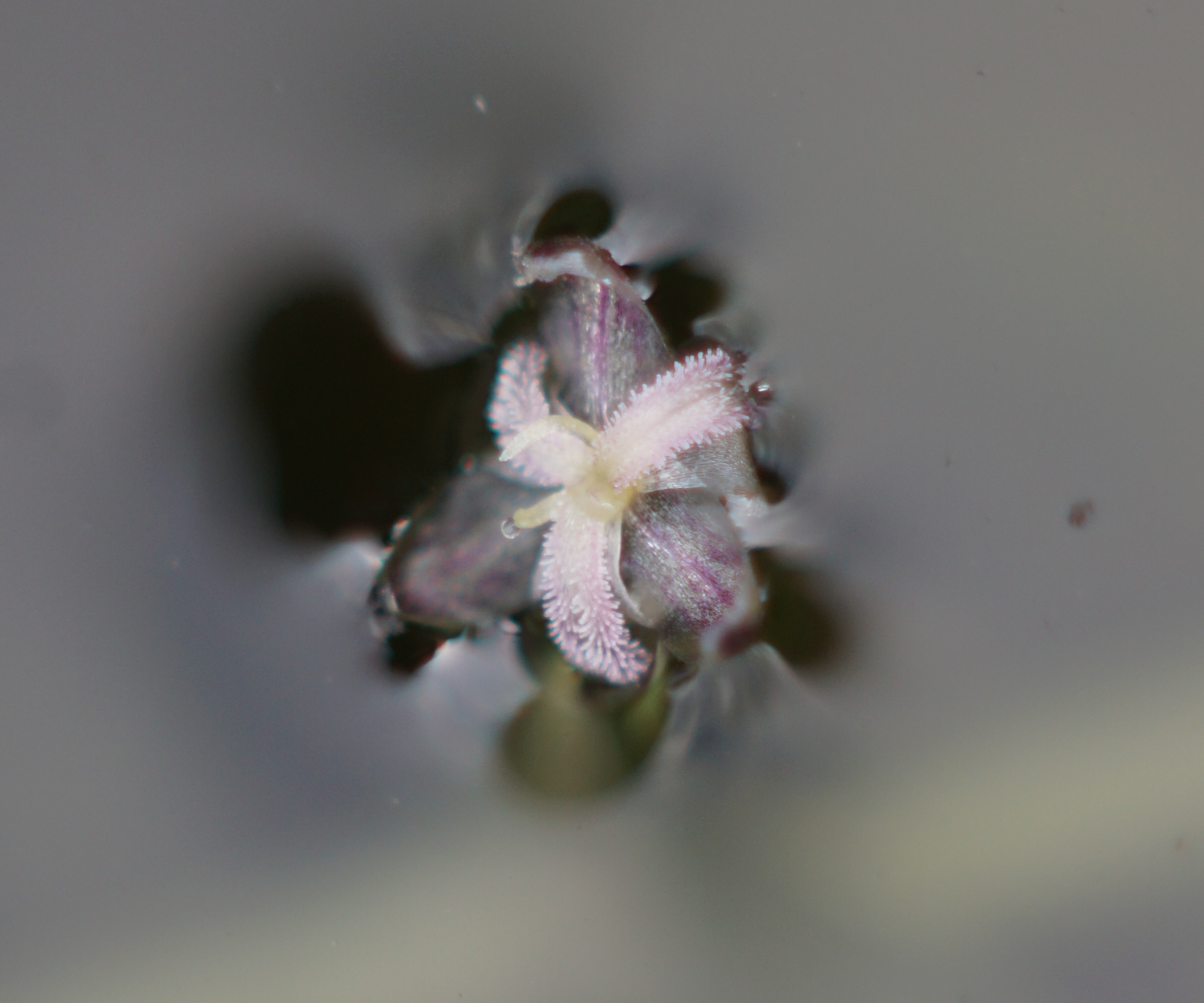 female flower of Elodea nuttalli in Reservoir Lake Sorpe, Westphalia, Germany